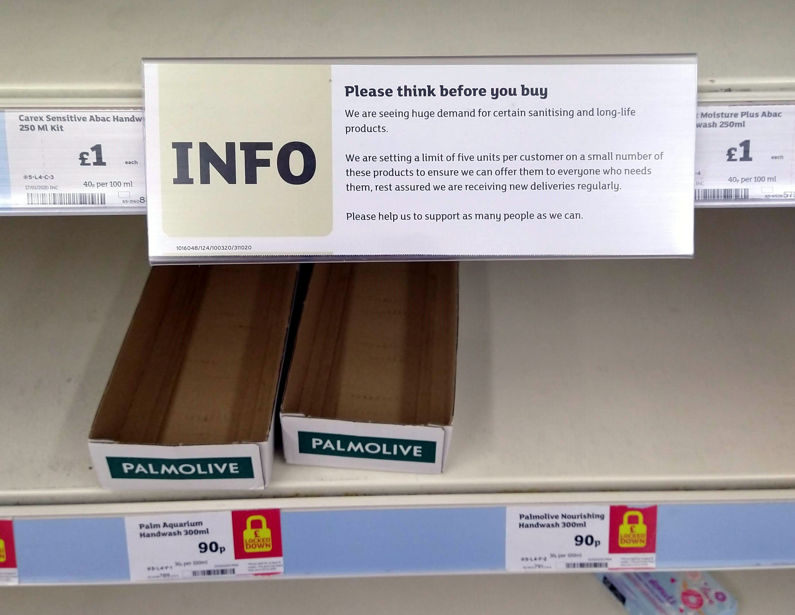 Rationing notice, Sainsbury's north London